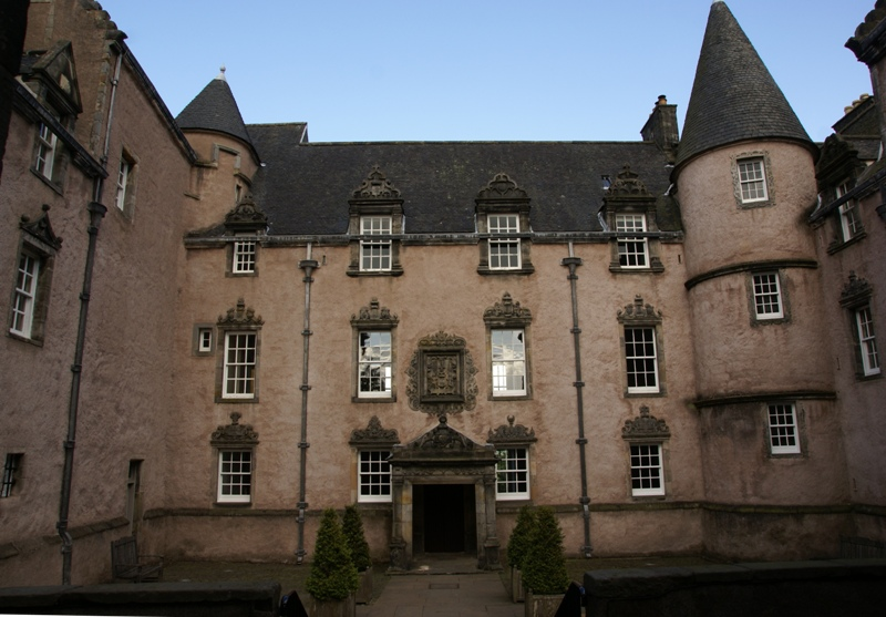 Argyll's Lodging, Stirling, Scotland - east wing facade